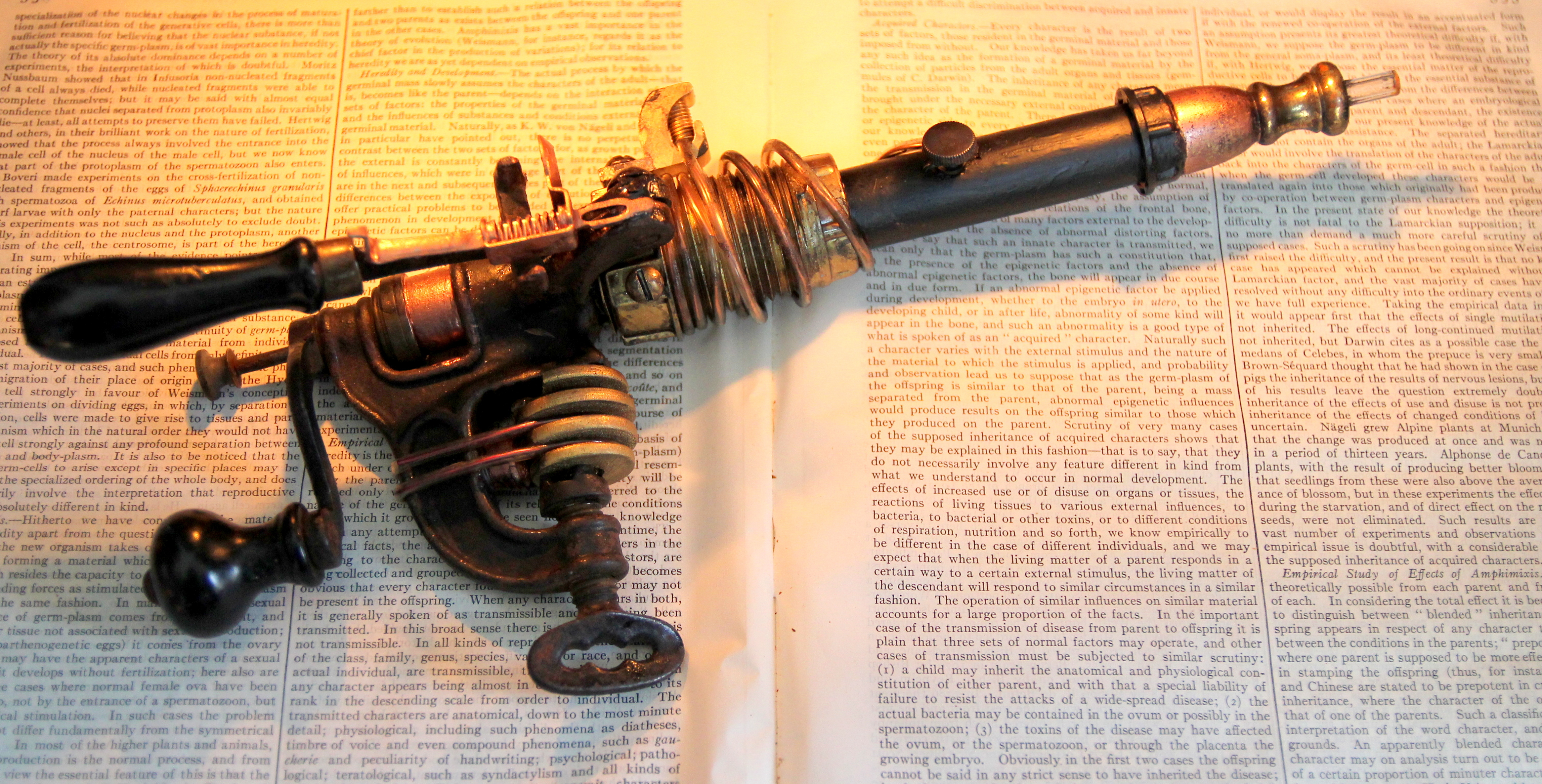 Mark Edward's Ray Gun